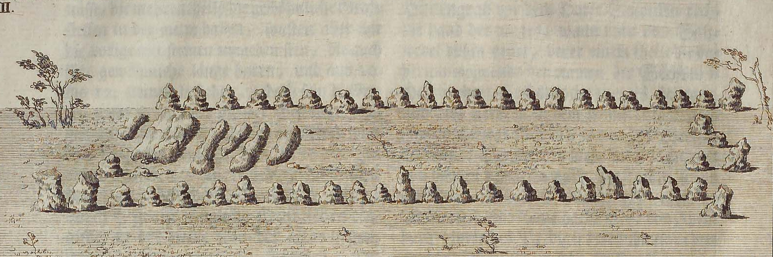 Dolmen 3 at Diesdorf, depicted in Johann Christoph Bekmann, Bernhard Ludwig Bekmann: Historische Beschreibung der Chur und Mark Brandenburg nach ihrem Ursprung, Einwohnern, Natürlichen Beschaffenheit, Gewässer, Landschaften, Stäten, Geistlichen Stiftern etc. [...]. Vol. 1, Berlin 1751